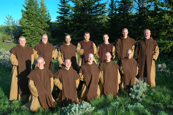 The Monks of the Most Blessed Virgin Mary of Mount Carmel standing on their new property known as the New Mount Carmel.